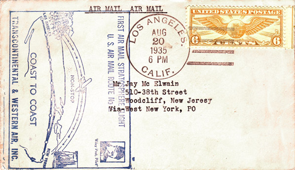 Cover flown by Wiley Post on his four attempts to make high altitude non-stop flights from Los Angeles to New York between February 22 and June 15, 1935 (The Cooper Collections) The first attempt on February 22 ended just 57.5 miles East of Los Angeles at Muroc, CA. This was followed by attempts on March 15 (Cleveland, OH; 2,035 miles), April 14 (Lafayette, IN; 1,760 miles), and June 15 (Wichita, KS; 1,188 miles). When Post was killed on August 15, 1935, thus ending the possibility of any more attempts to complete the AM-2 stratosphere flight, the covers were finally cancelled in Los Angeles on August 20, 1935, and forwarded to their addressees.